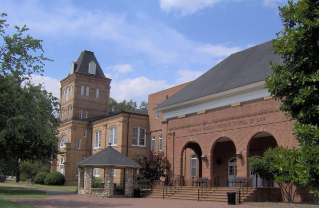 Photograph of Wiggins Hall & Kivett Hall on Campbell University campus (Norman Adrian Wiggins School of Law)